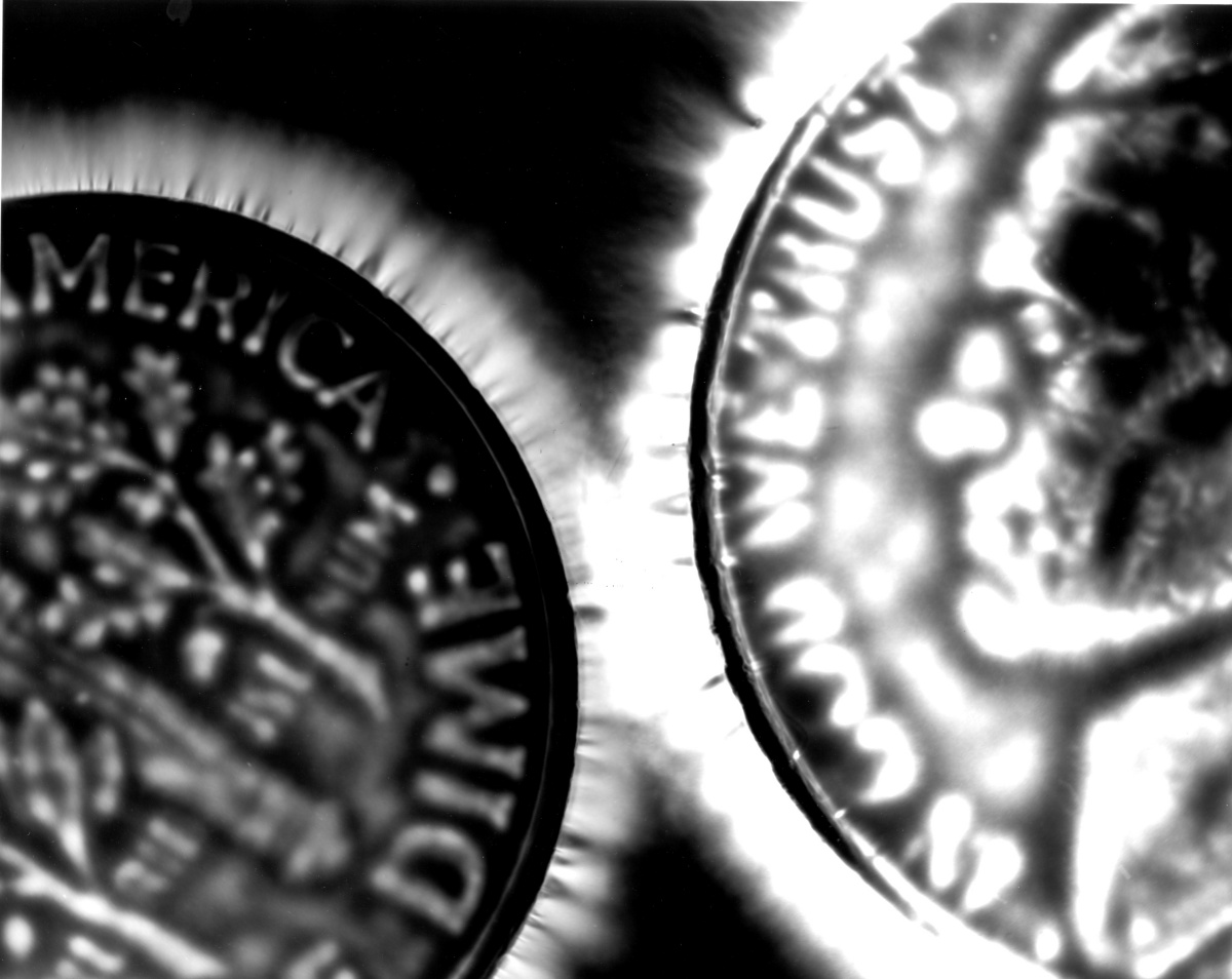 Kirlian photo of coins